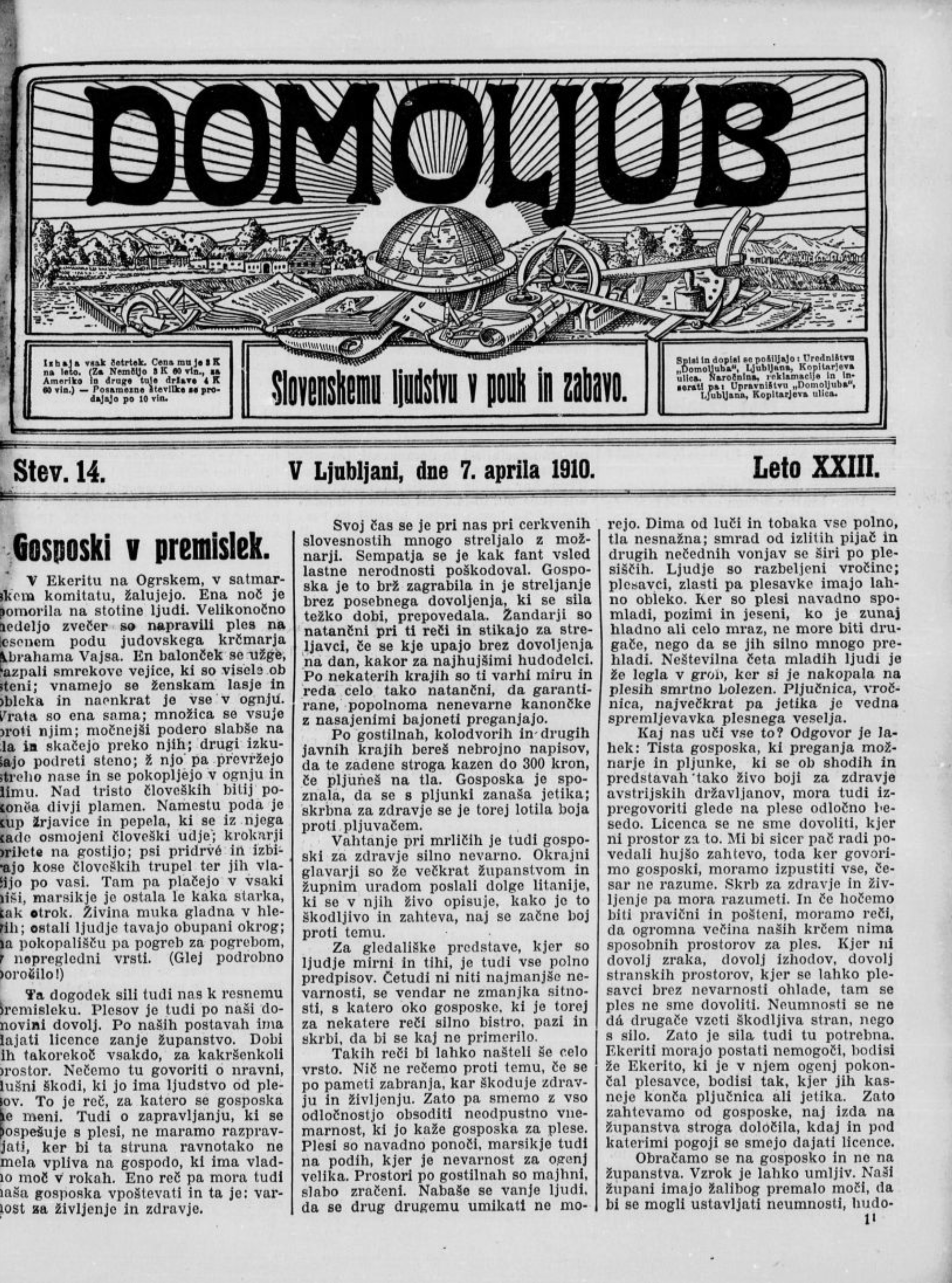 Slovene newspaper Domoljub (Patriot) from April 7 1910. Cover story the Szatmárököritó fire (now Ököritófülpös) in March 27 1910 (with 312 deaths)